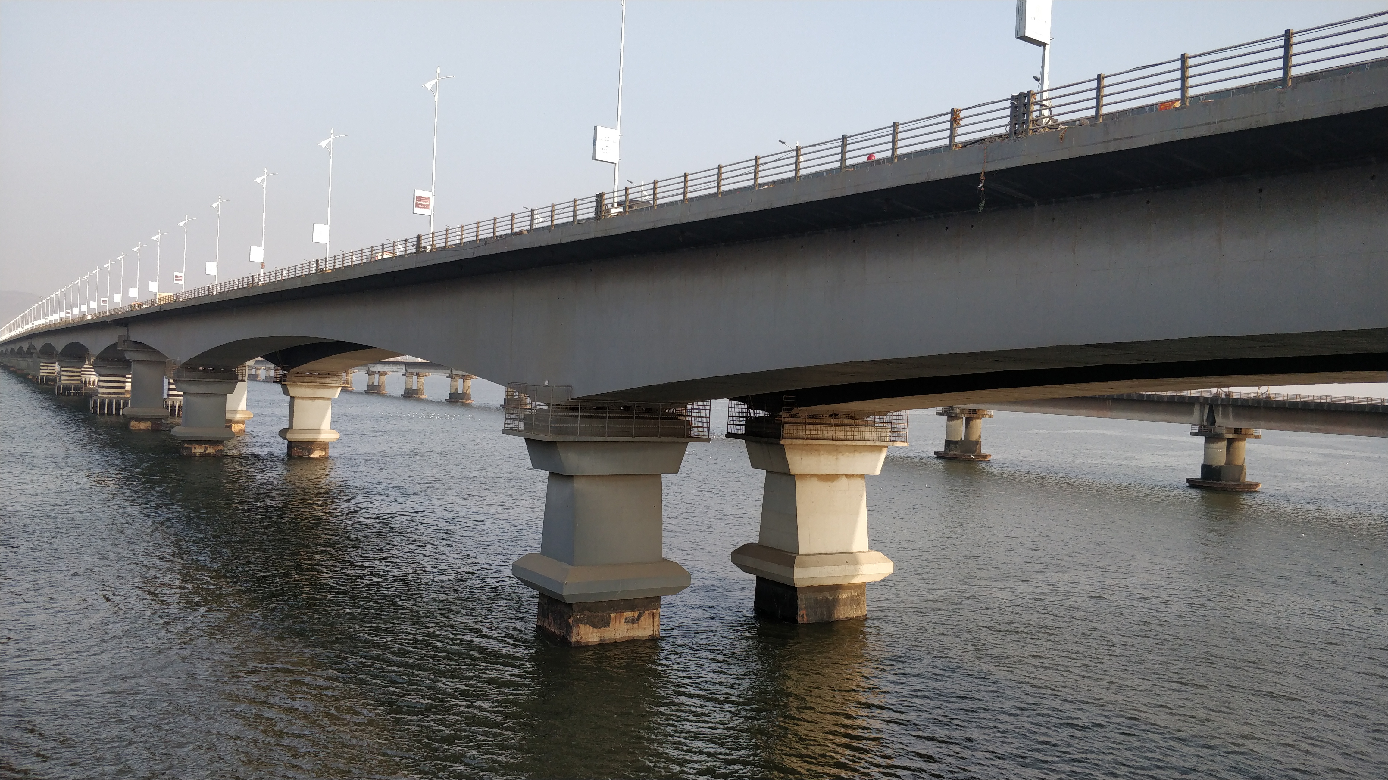 Vashi creek flyover 2020